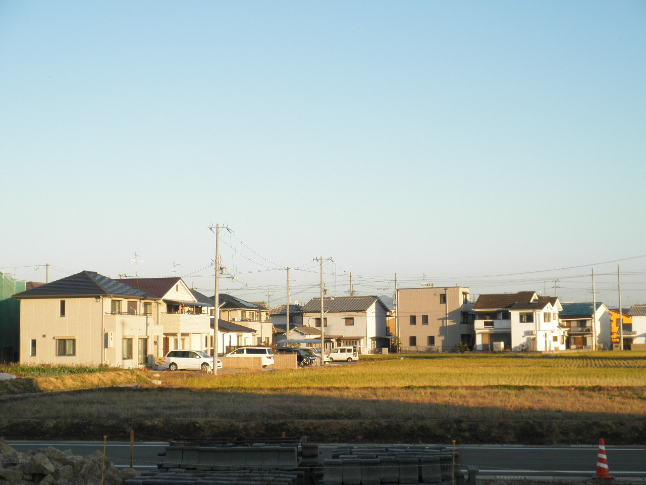 Hirata Mikicity Hyogopref